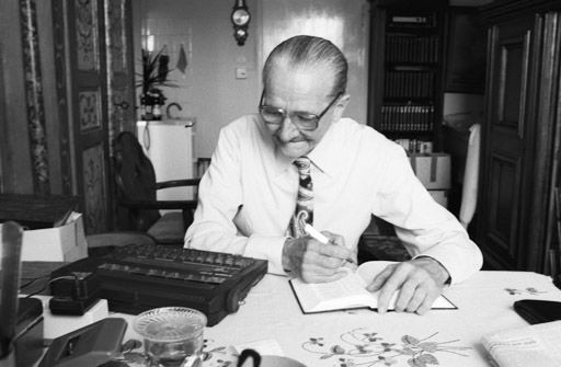 Resident of a nursing home in Munich (Germany)